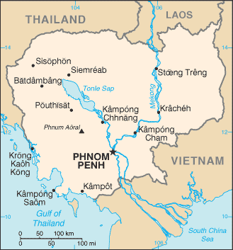 Cambodia map from CIA World Factbook (since 11 May 2005), converted from original GIF format